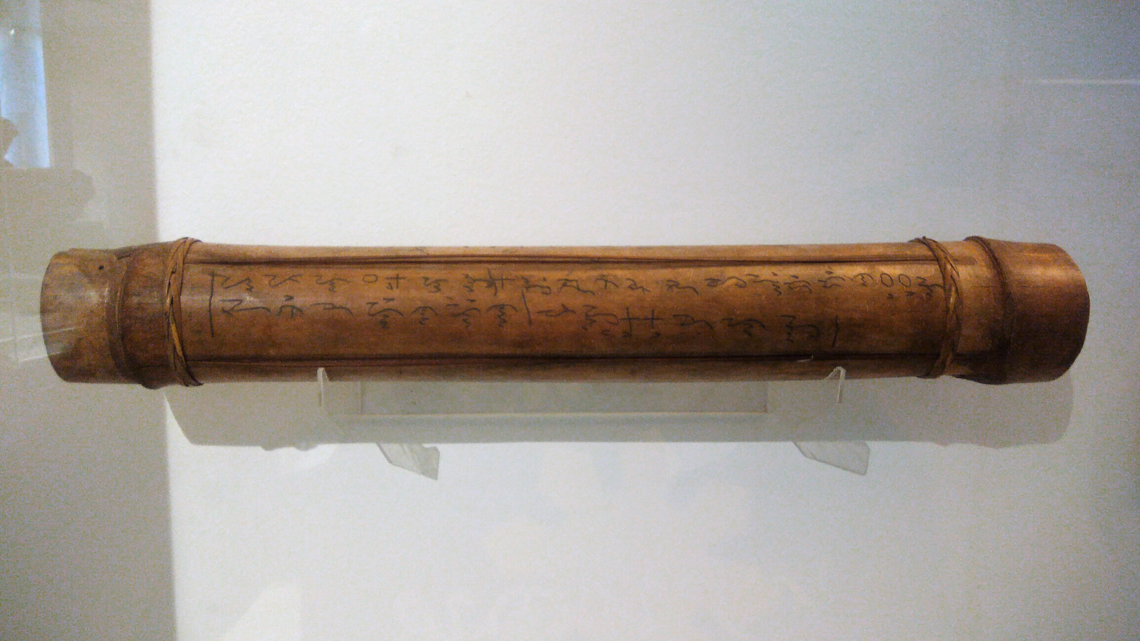 A Tagbanua musical instrument inscribed with syllabic writings among the Tagbanua people in Palawan. Filipino: Isang instrumentong pang-musika na gawa sa kawayan at may nakaukit na sulat Tagbanua mula sa Palawan.